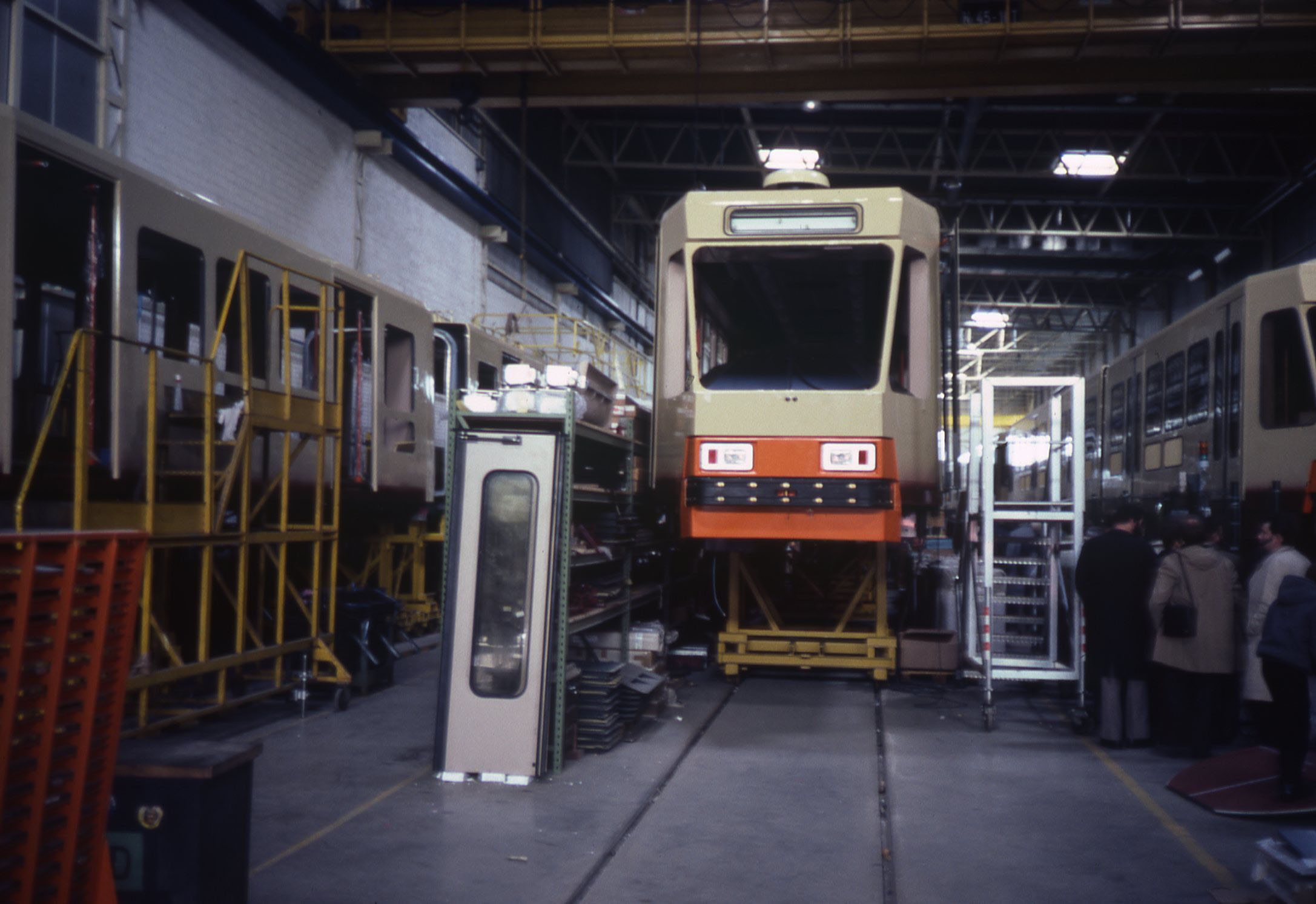 The LRT-1 ligthrail Manila vehicle being built in the BN plant in Bruges